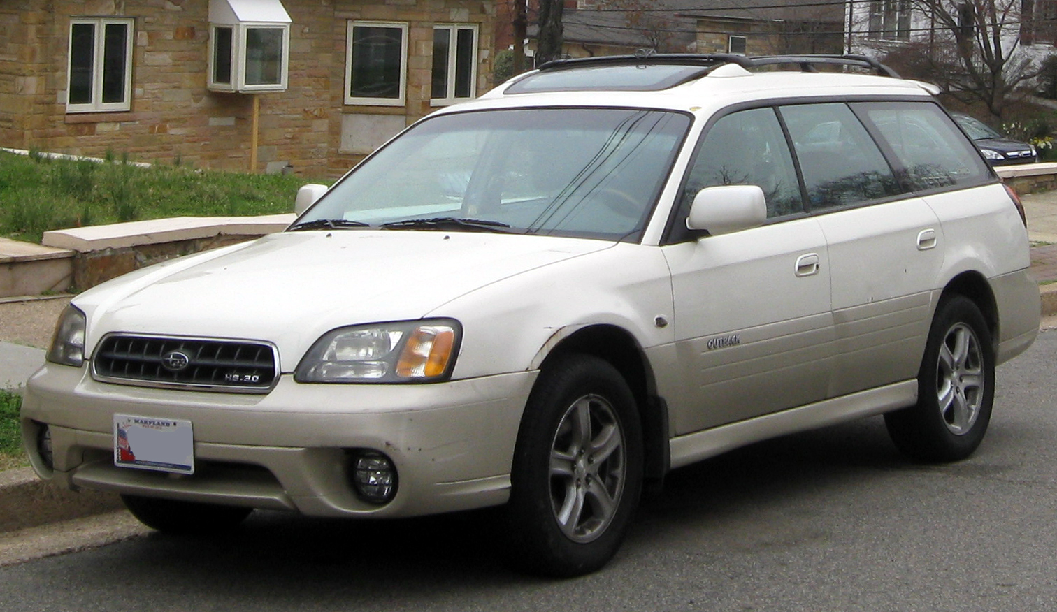 Subaru Outback photographed in Washington, D.C., USA.